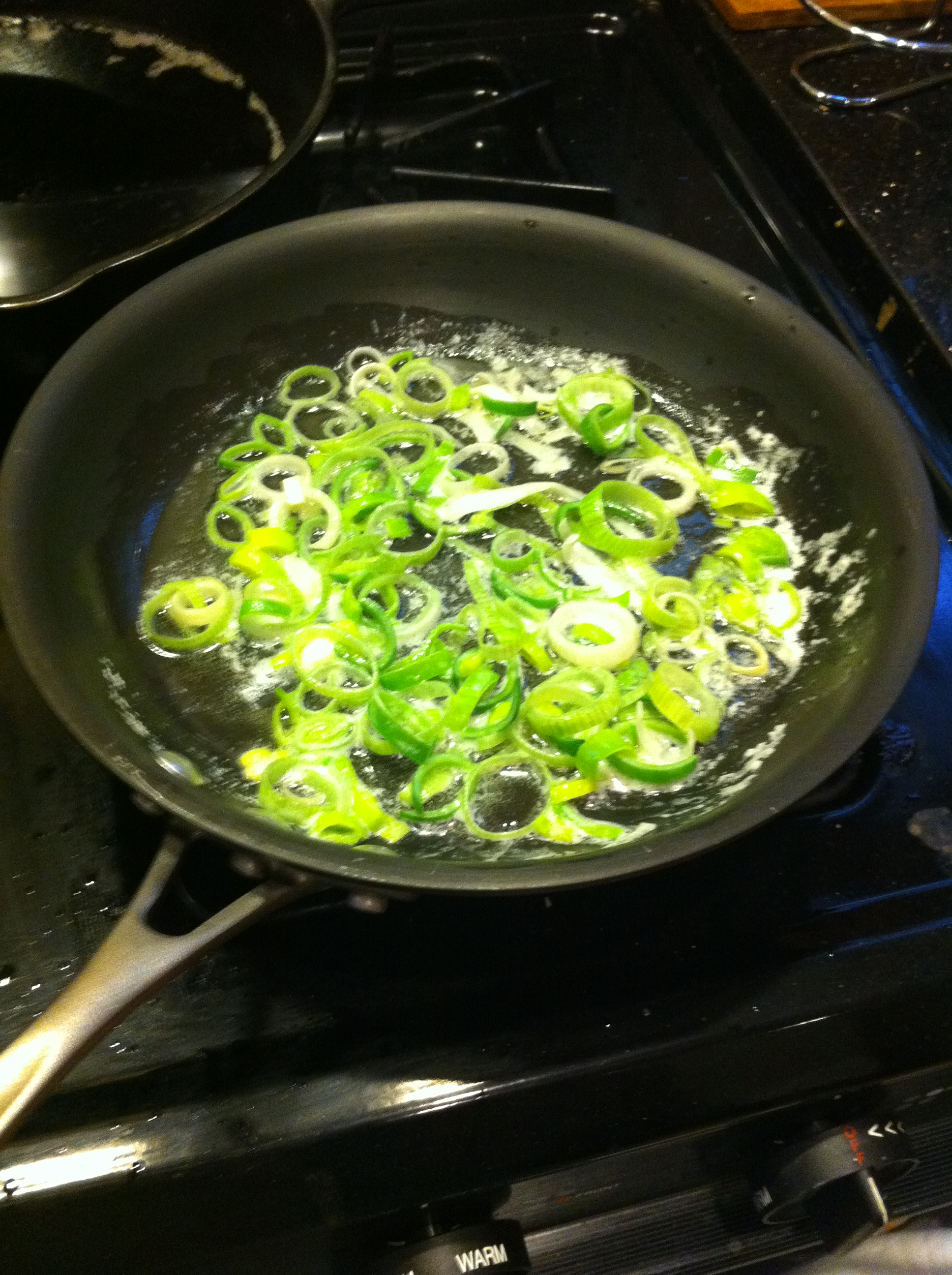 Fresh leek sautéing in a frying pan.